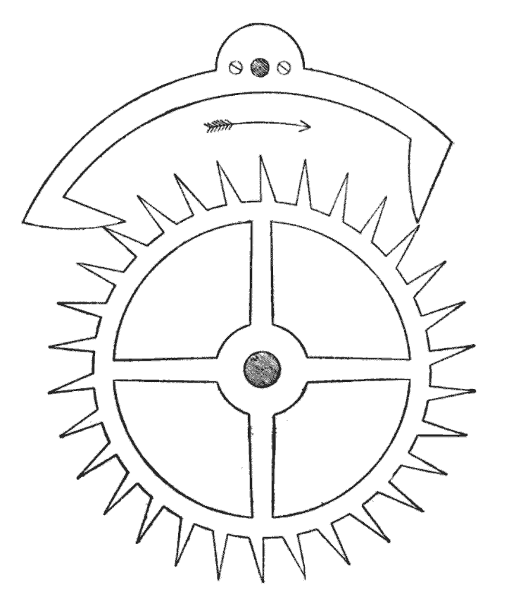 Drawing of a recoil or anchor escapement for a pendulum clock, from an 1896 clockmaking manual. The top piece is called the anchor, and the escape wheel is under it. The escape wheel has 30 teeth, so when used with a pendulum beating seconds, the escape wheel rotates once per minute, allowing it to be used to turn the clock's second hand. Alterations to image: removed figure number and dotted construction lines, changed from JPEG to 4 greyscale PNG.